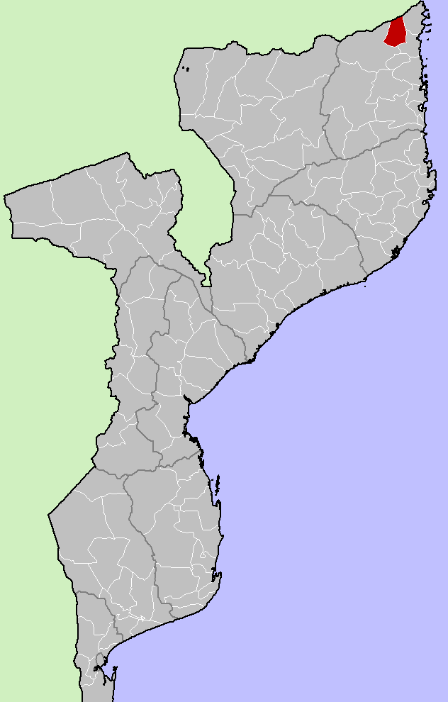 District locator in Mozambique